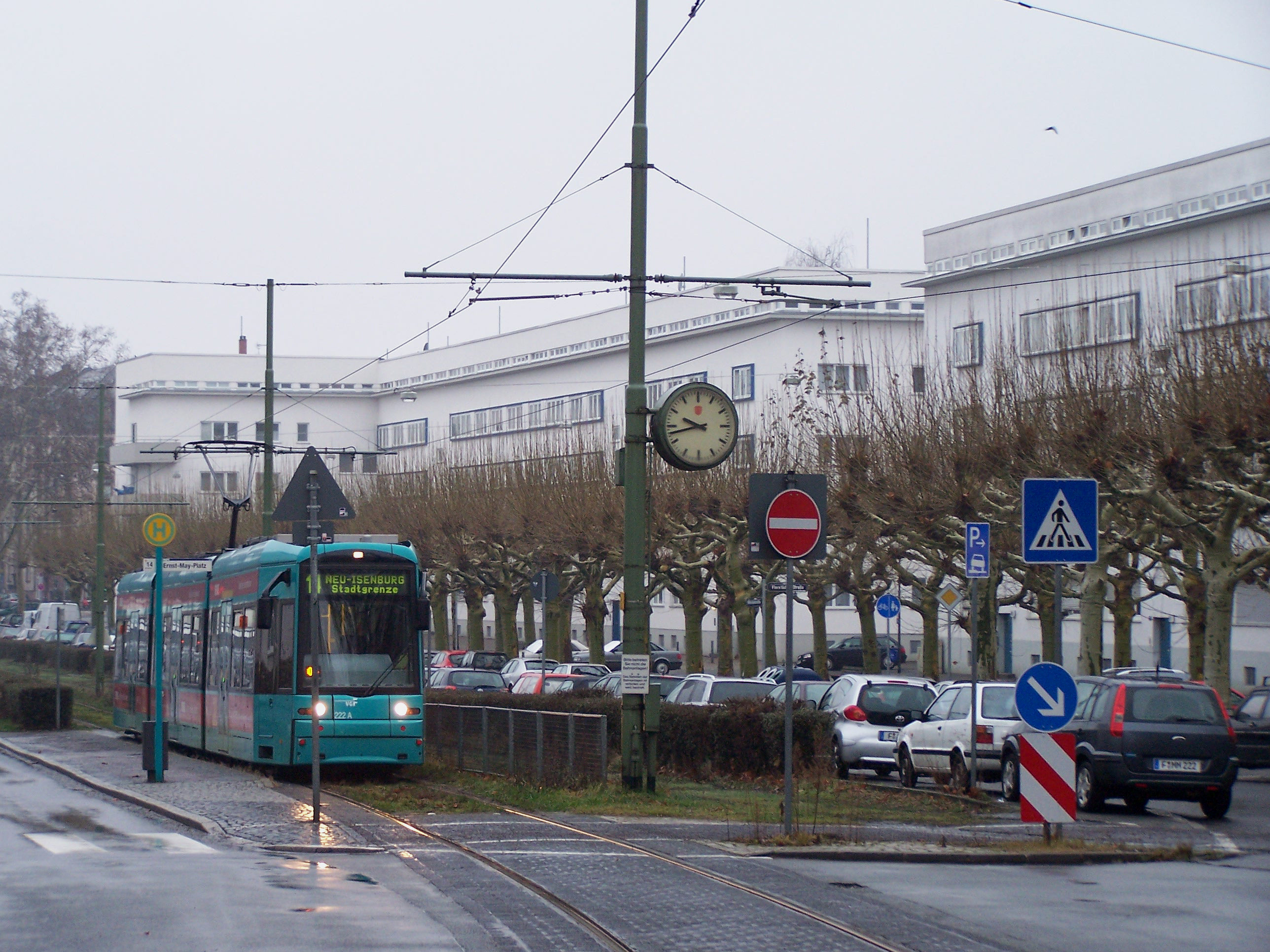 Houses of the Bornheimer Hang settlement, in the Wittelsbacher Allee in Frankfurt am Main-Bornheim and the tram stop Ernst-May-Platz, in December 2009